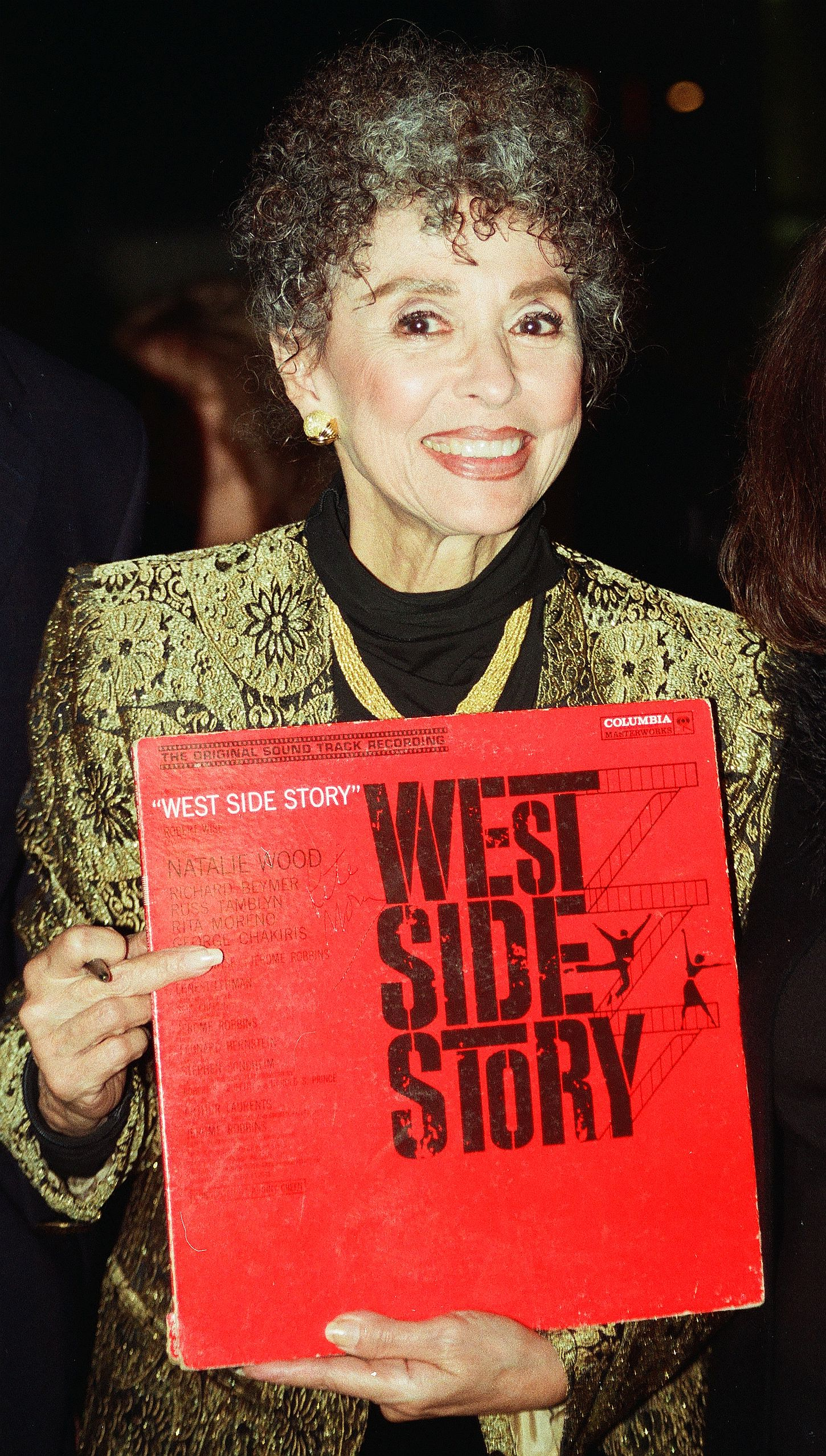 Baltimore Maryland 2000